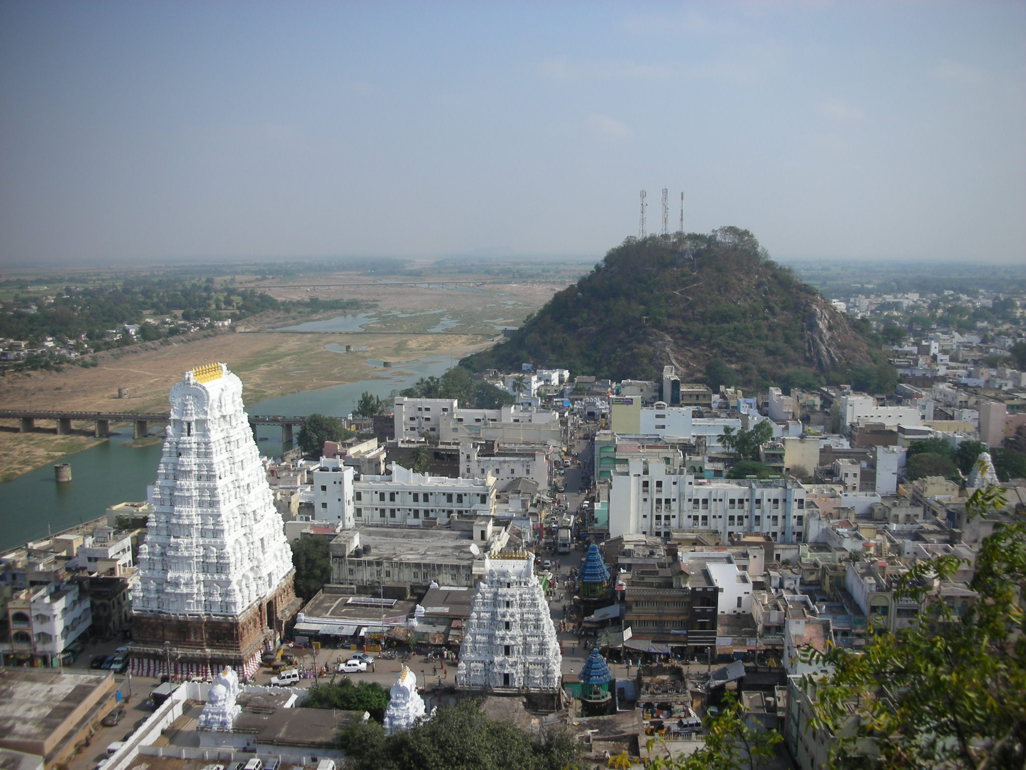 Sri Kala Hasti in Tirupati. White gopuram in the left of the picture, the river Swarnmukhi runs past it. Original caption: view from adjancet bakta kannappa hill